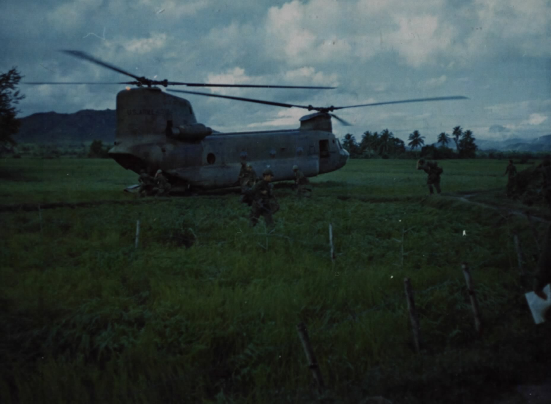 Elements of the 1st Cavalry Division (Airmobile) take part in Operation Irving, a search and destroy operation against the Viet Cong in the Phu My Province, approx 40 kilometers northeast of An Khe. A CH-47 helicopter picks up members of "A" Company, 1st Battalion, 8th Cavalry, 1st Brigade, for an air lift assault into an area suspected of being occupied by the Viet Cong.